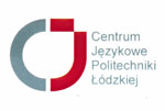 Logo of Foreign Language Centre of Lodz University of Technology